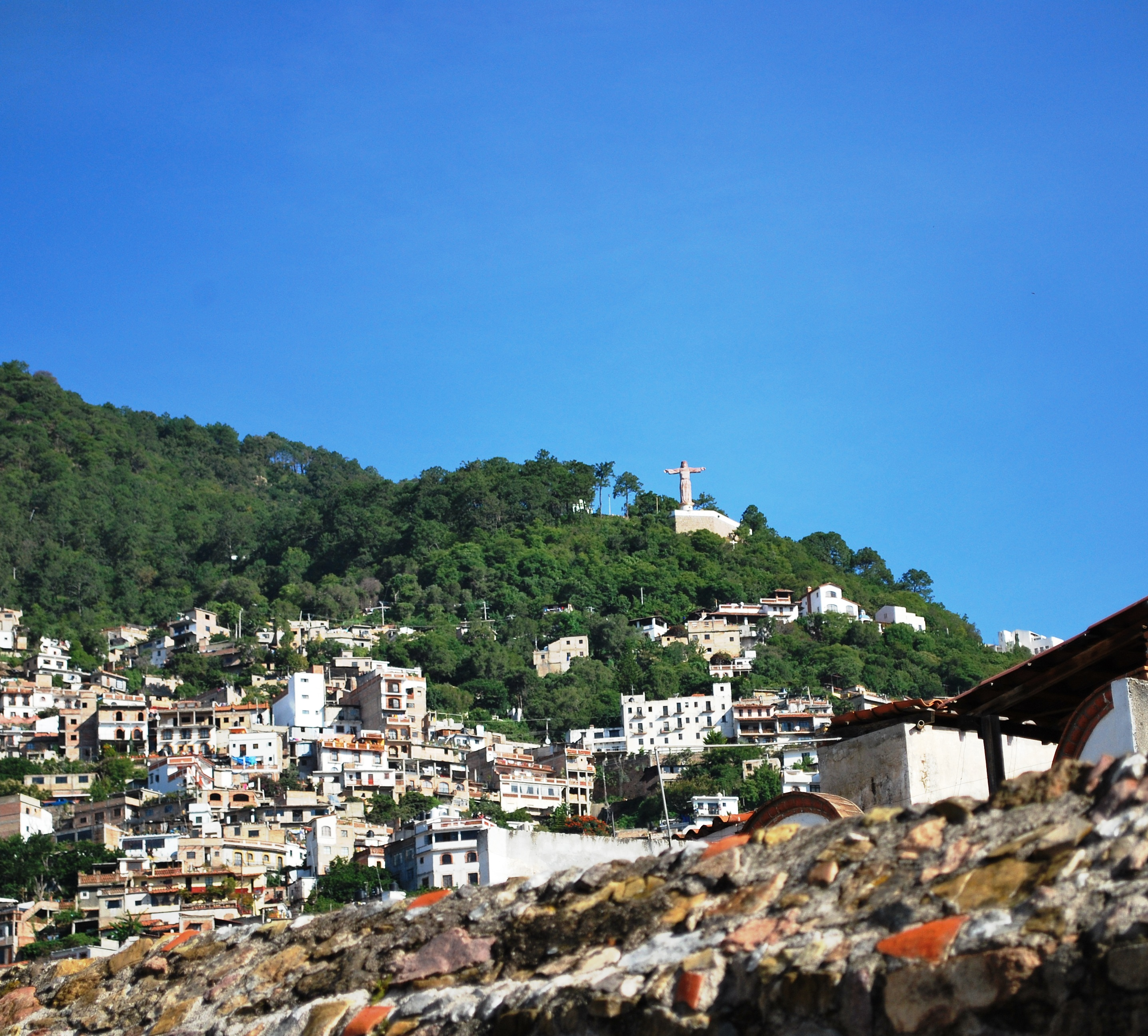 Monumental scultpure of Christ on hill overlooking Taxco de Alarcon, Guerrero, Mexico as views from La Santisima Church.